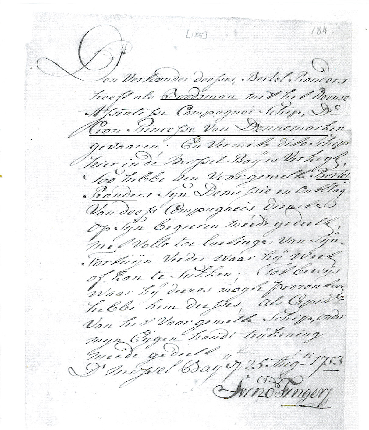 The certificate issued by Captain Svend Finger to give Bertel Randers permission to seek his own future in South Africa. The original is kept at the Cape Archives.